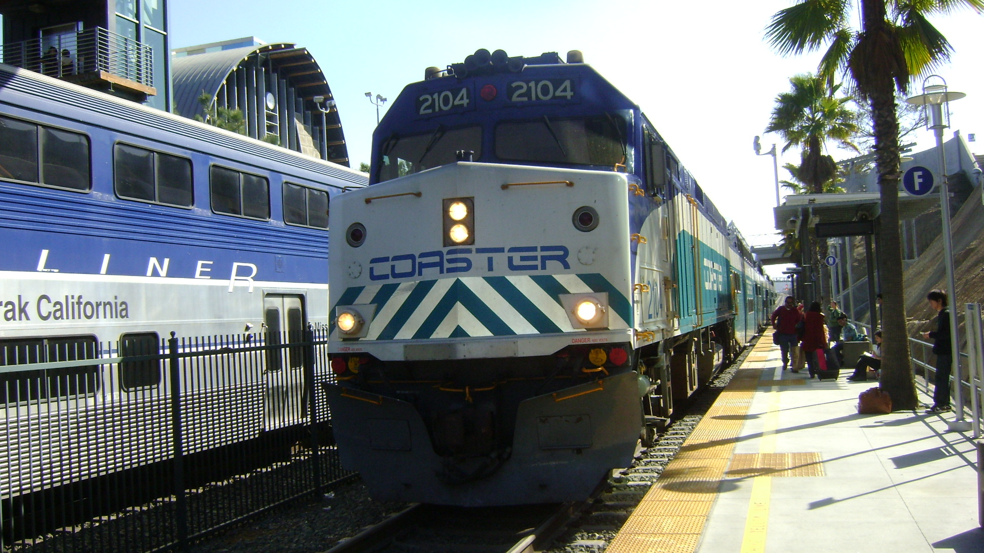 Coaster in Solana Beach with Amtrak Pacific Surfliner behind it.